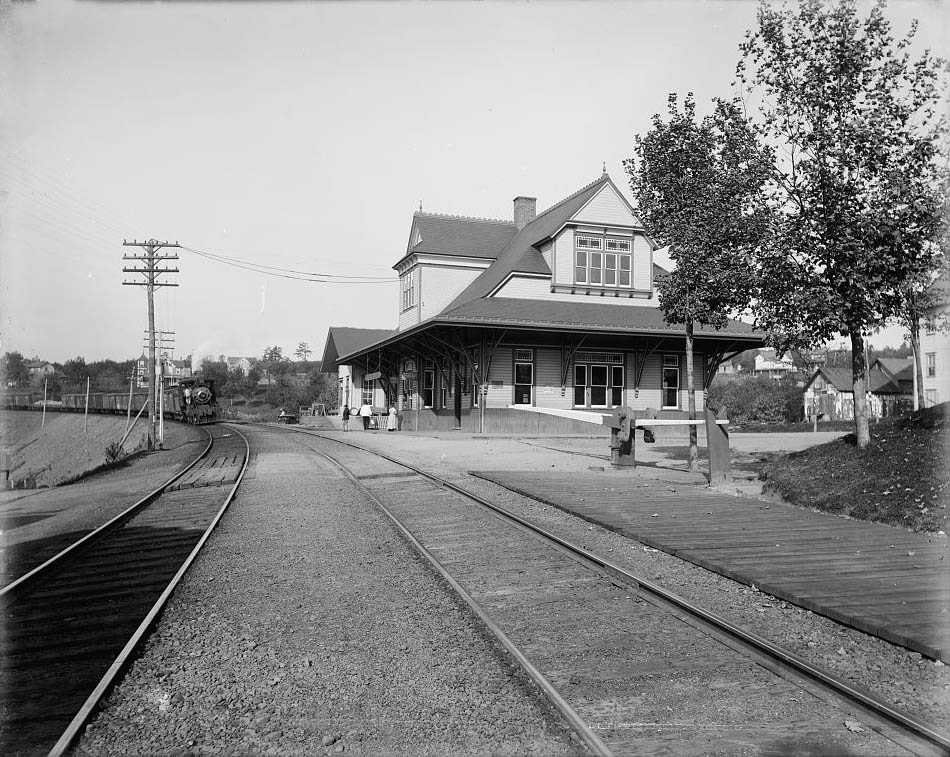 Mt. Pocono station, D.L. & W.R.R. Related Names- Detroit Publishing Co. , publisher Date Created Published- between 1890 and 1901